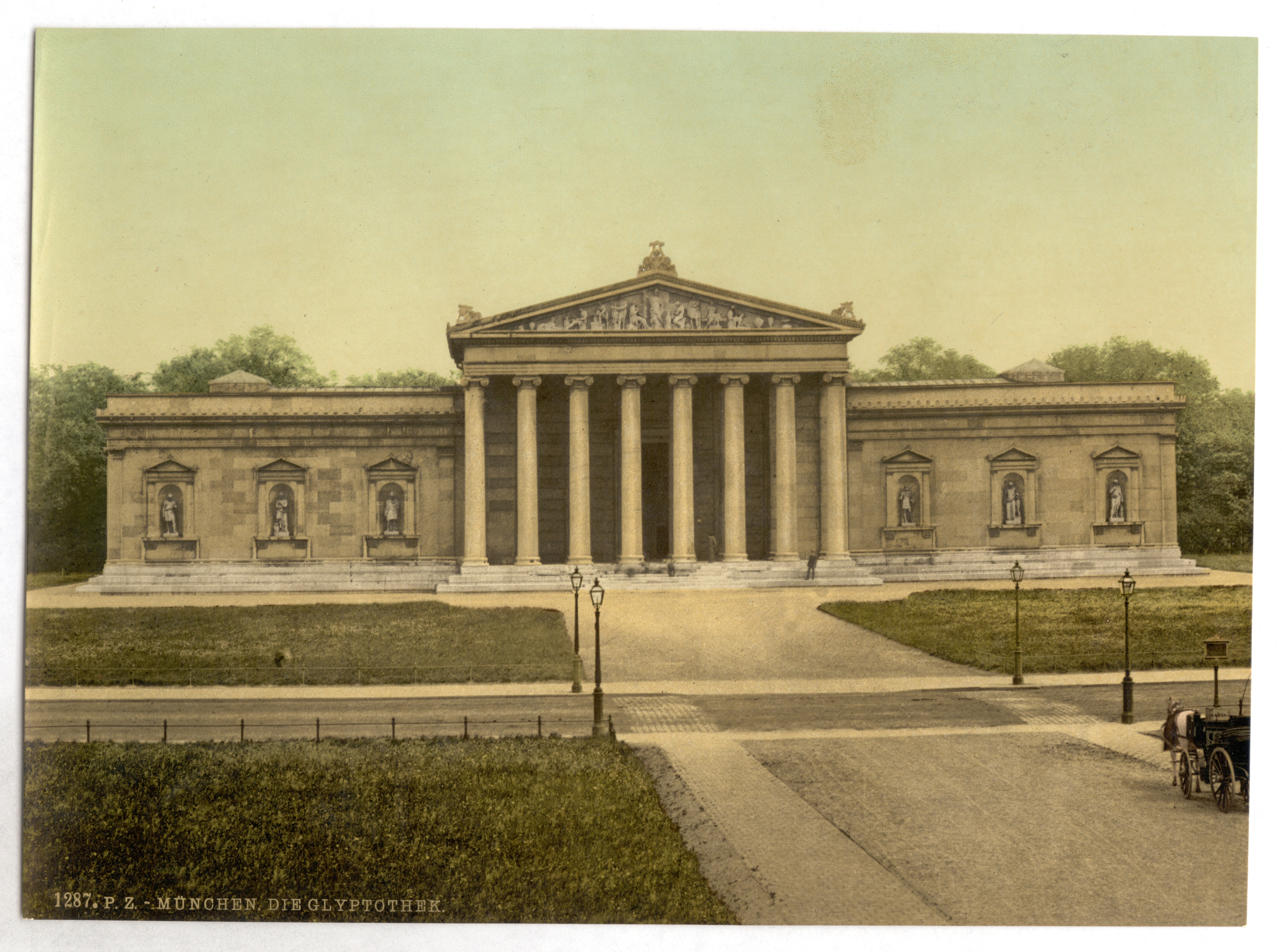 Title from the Detroit Publishing Co., catalogue J-foreign section. Detroit, Mich. : Detroit Photographic Company, 1905.; Print no. "1287".; Forms part of: Views of Germany in the Photochrom print collection.